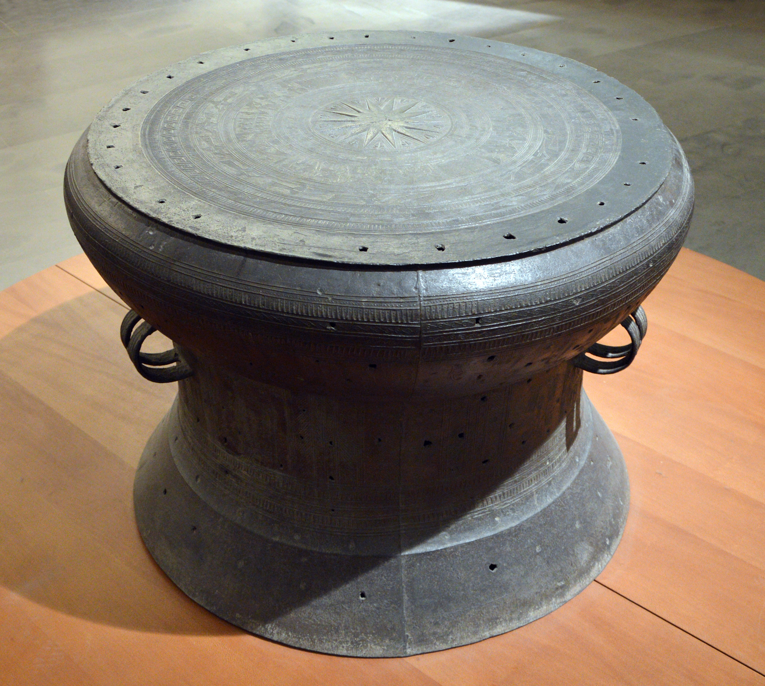 Drum From Song Da Vietnam. Dong Son II Culture. Mid 1st Millenium BCE. Bronze